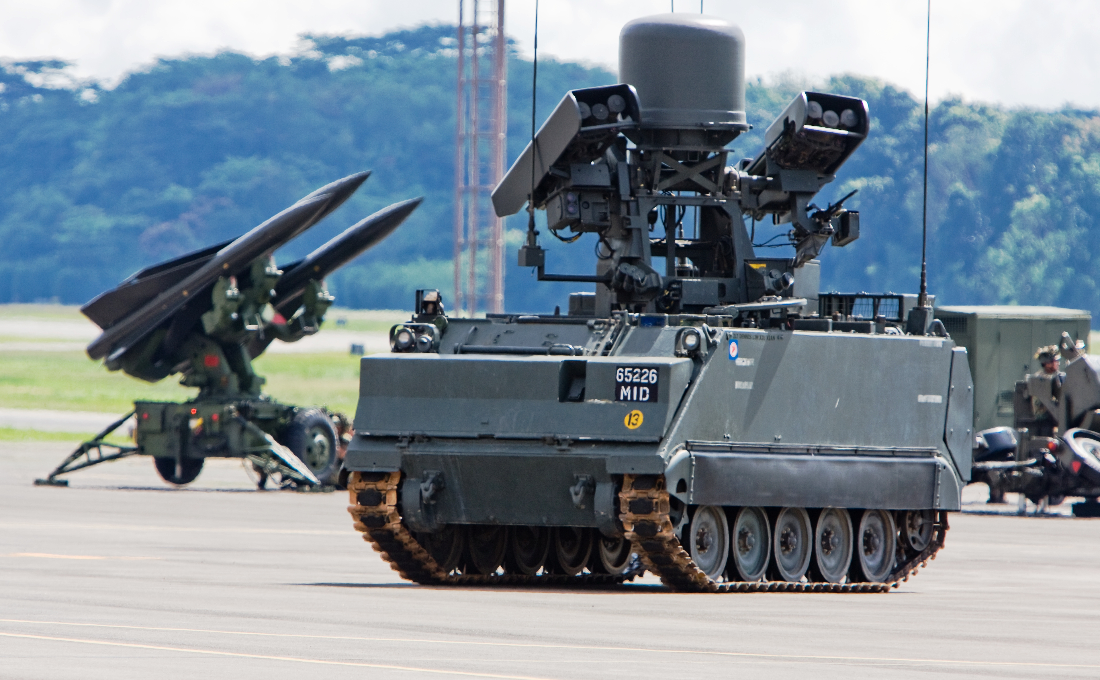 The Singaporean M113A2 Ultra Mechanised Igla Surface-to-Air Missile Integrated Firing Unit (IFU).